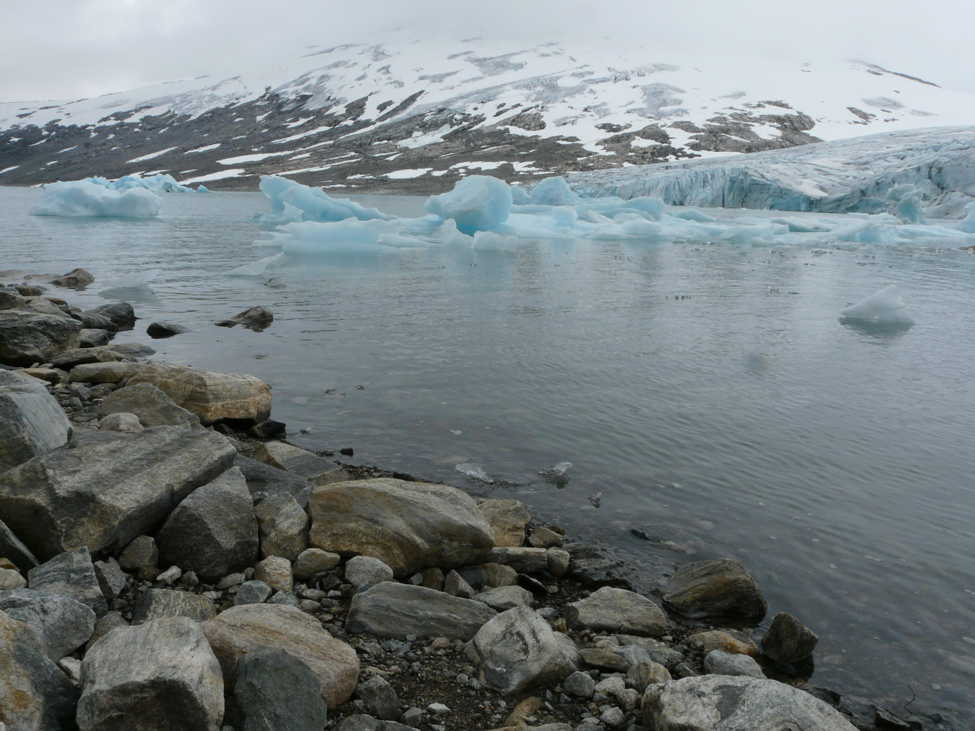 Glacierlake Styggevatnet